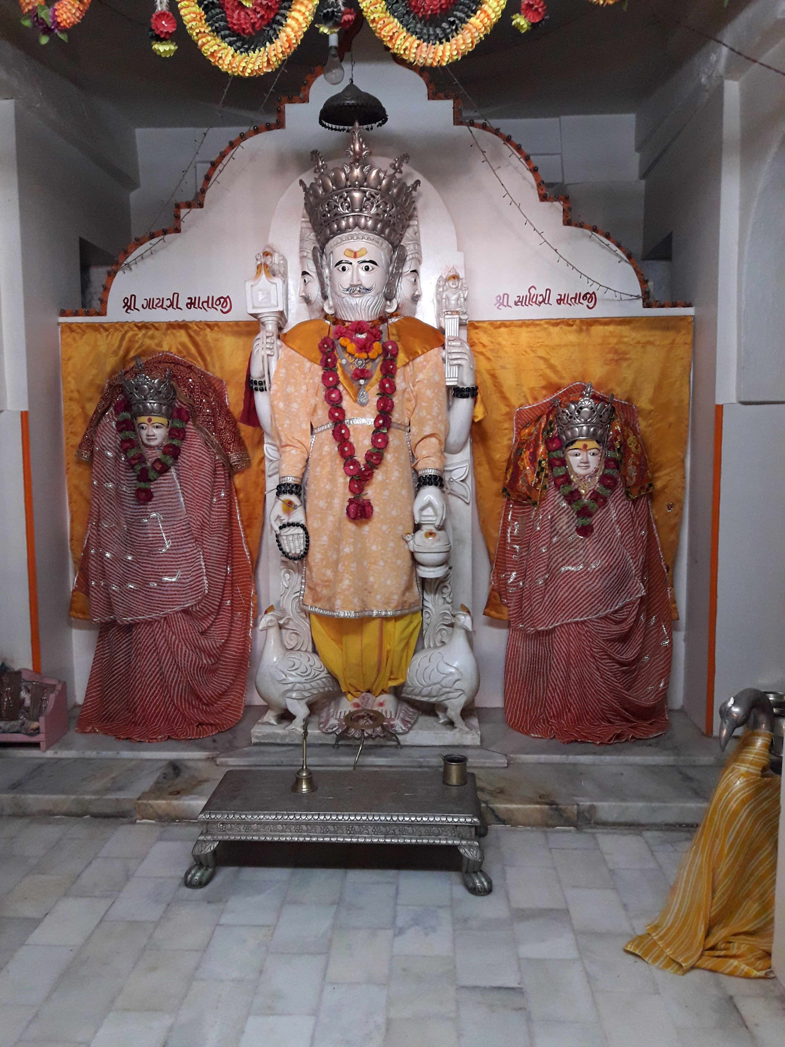 Brahmaji Temple at Khedbrahma, Gujarat, India.